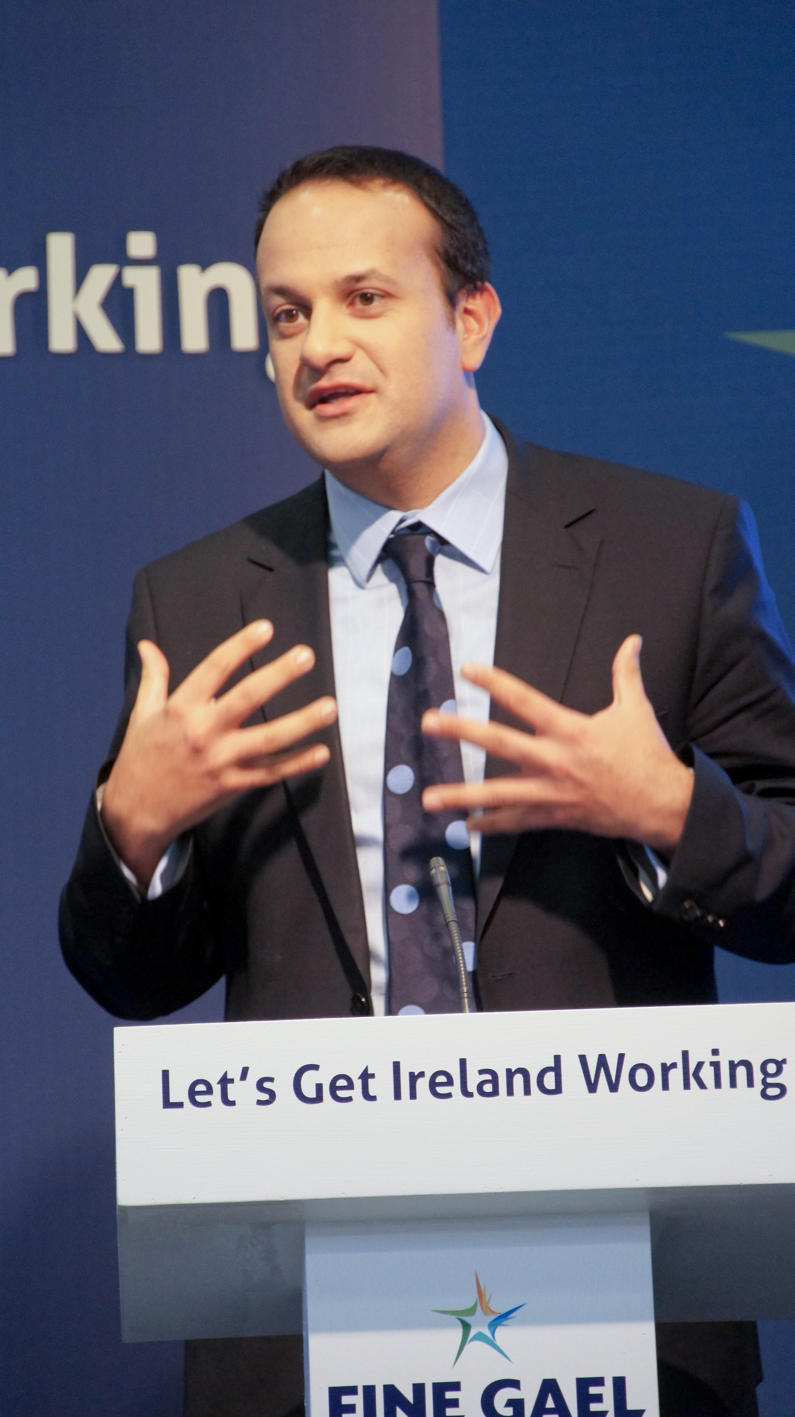 Leo Varadkar TD at a Fine Gael press conference during the 2011 General Election Campaign.